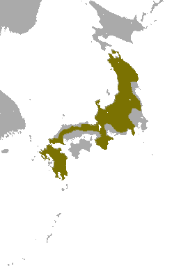 Japanese Water Shrew (Chimarrogale platycephalus) range